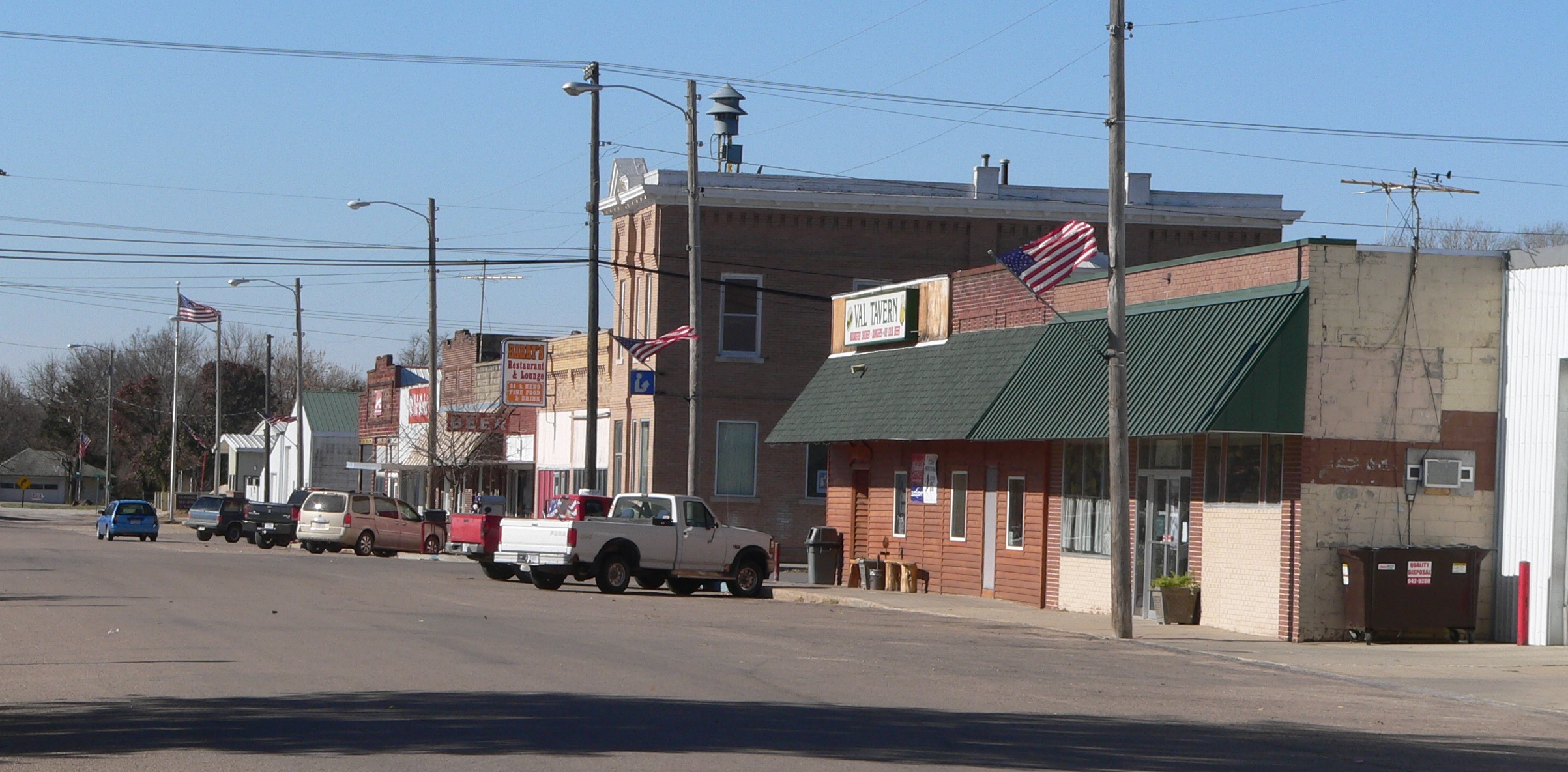 Valparaiso, Nebraska: north side of 2nd Street, looking northwest from about Spruce Street.